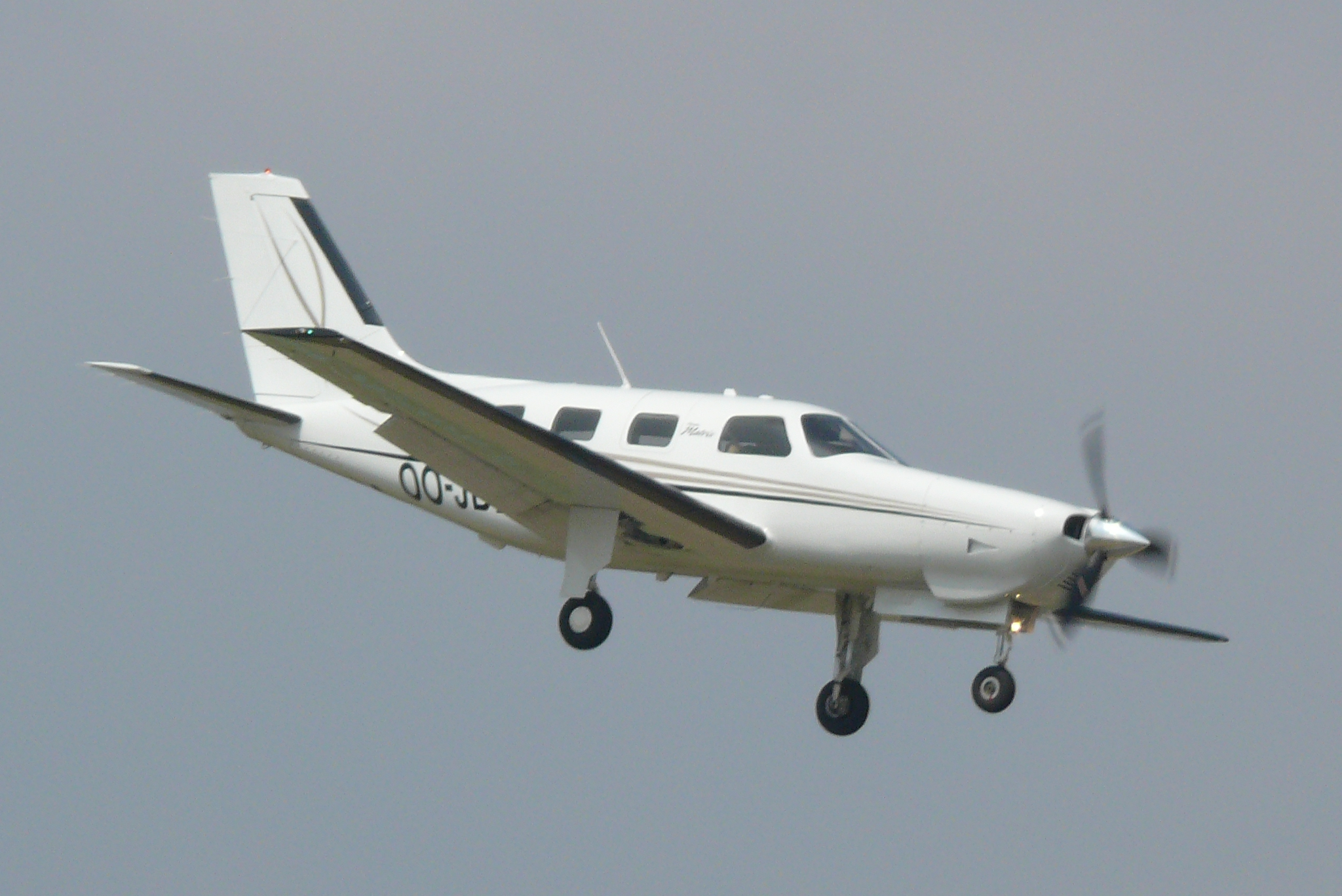 Piper PA.46R-350T Matrix OO-JDB (c/n 4692123) at Antwerp International Airport.